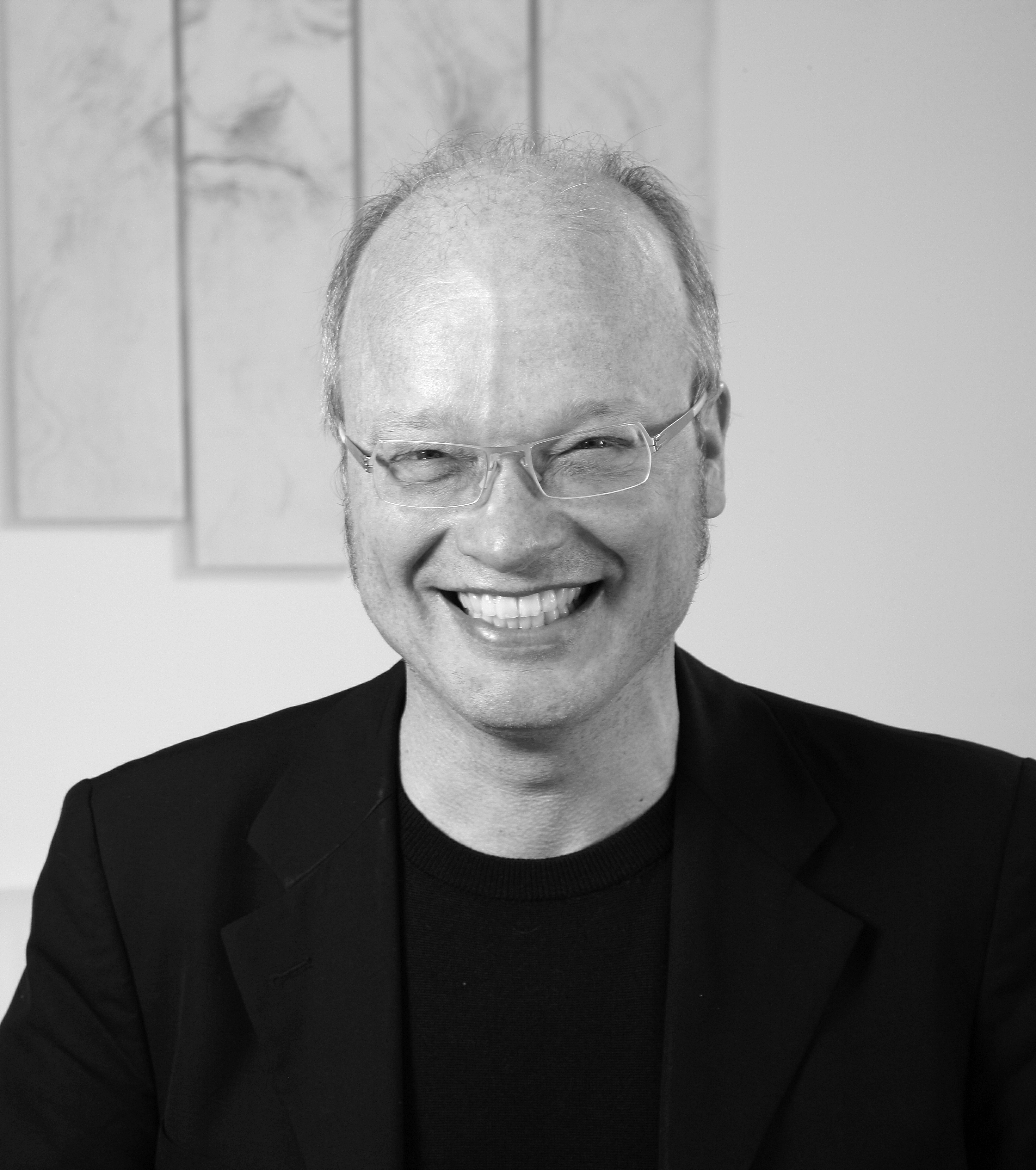 Rainer Buchmann in front of Leonardo Da Vinci